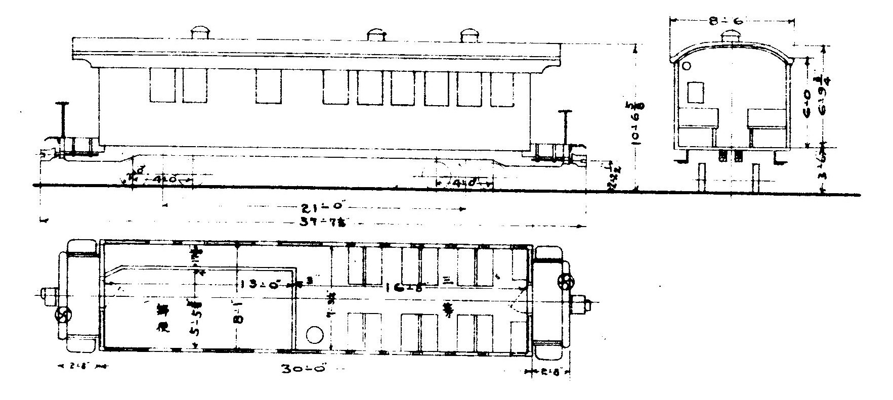 Type dawing of JGR's passenger car Fukohayu8050 (ex. Hokkaido Tanko Railway Sayu-24)